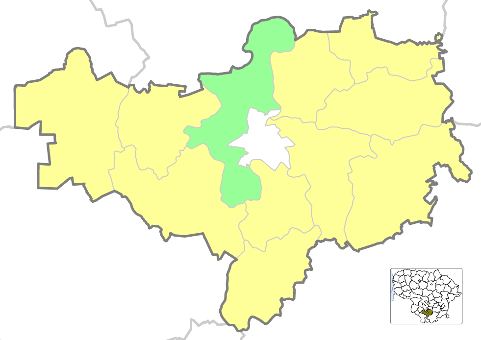 Location of Alytaus Eldership in Alytus District Municipality